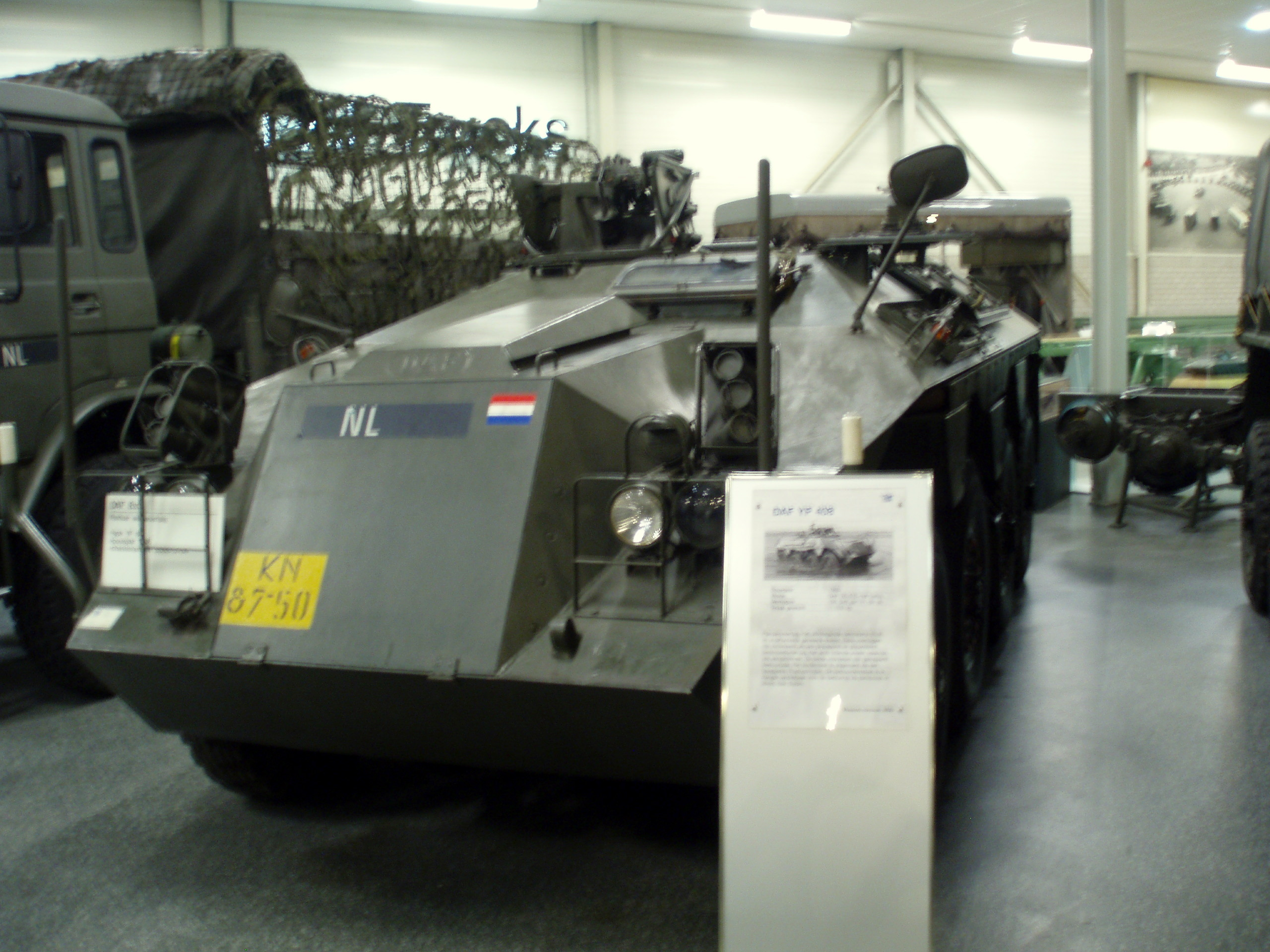 DAF YP 408 APC @ the DAF museum, Eindhoven, NL.